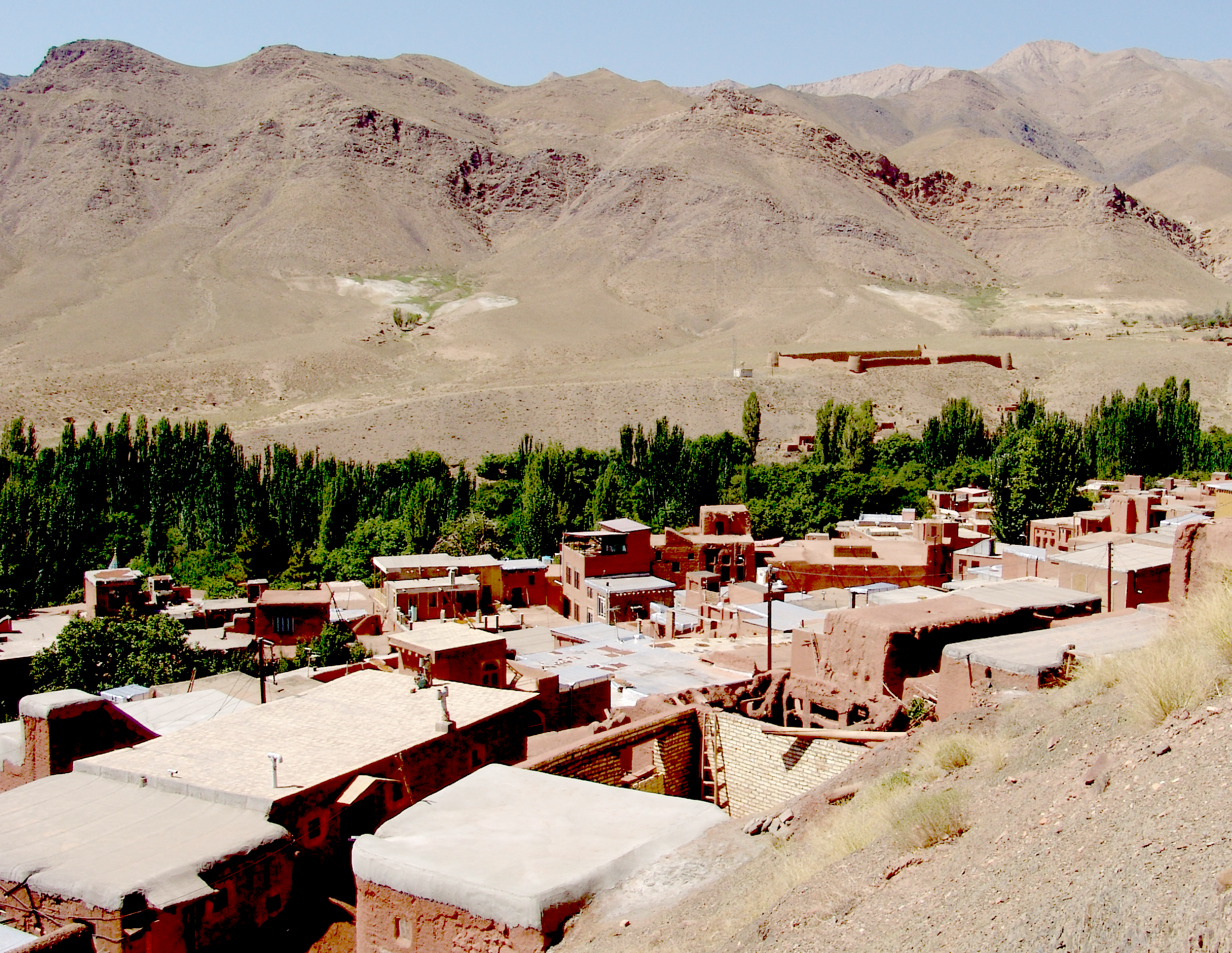 Roofs in Abyaneh, Province Isfahan, Iran